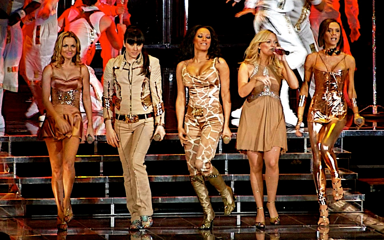 Spice Girls in Toronto Air Canada Center.